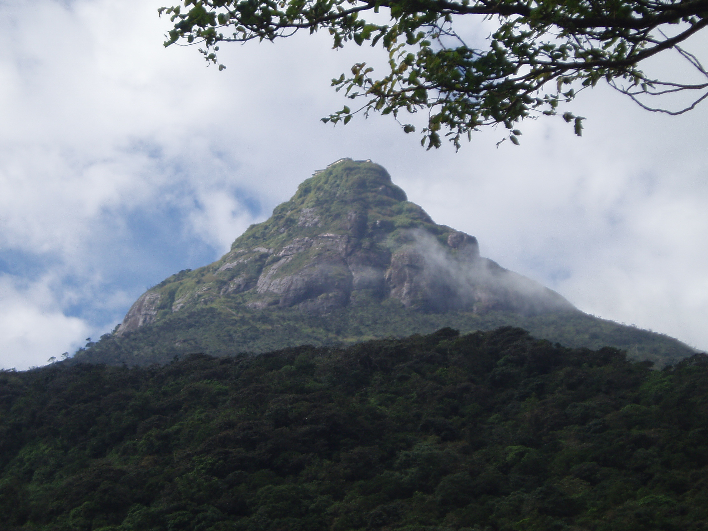 Adam's Peak, Sri Lanka from the bottom